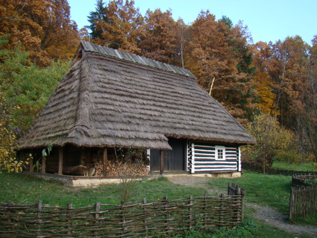 Skansen in Sanok, the cottage from Węglówka (Krosno County)